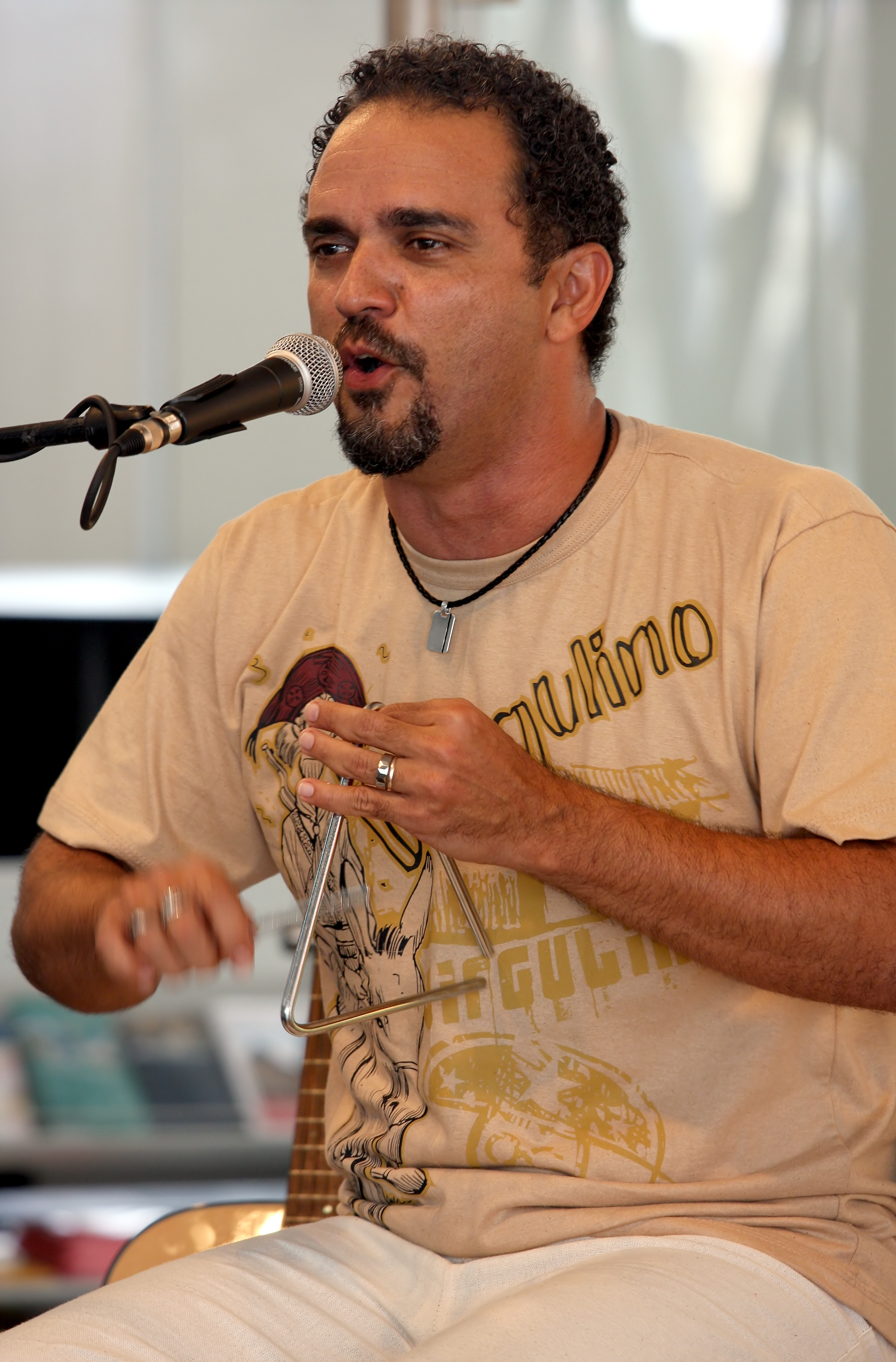 Valdir Santos and three members of his band performs in Cologne, Domforum